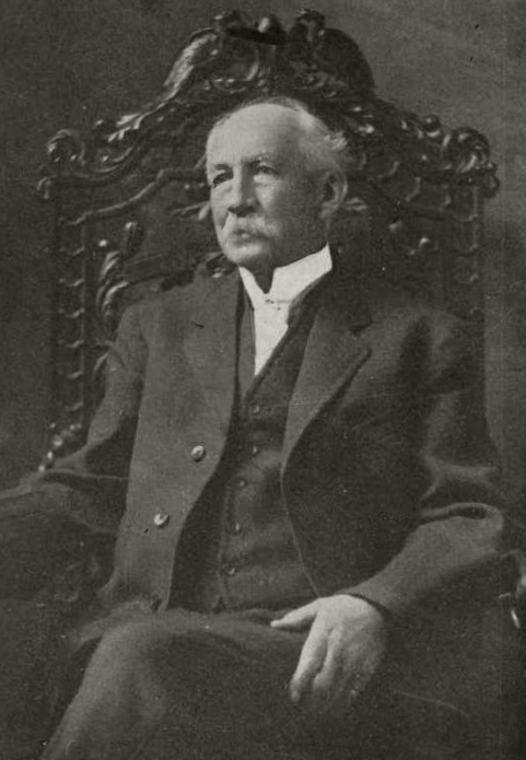 Image of Charles Hallock from his Autobiography-AN ANGLER'S REMINISCENCES, A RECORD OF SPORT, TRAVEL AND ADVENTURE.(1913)